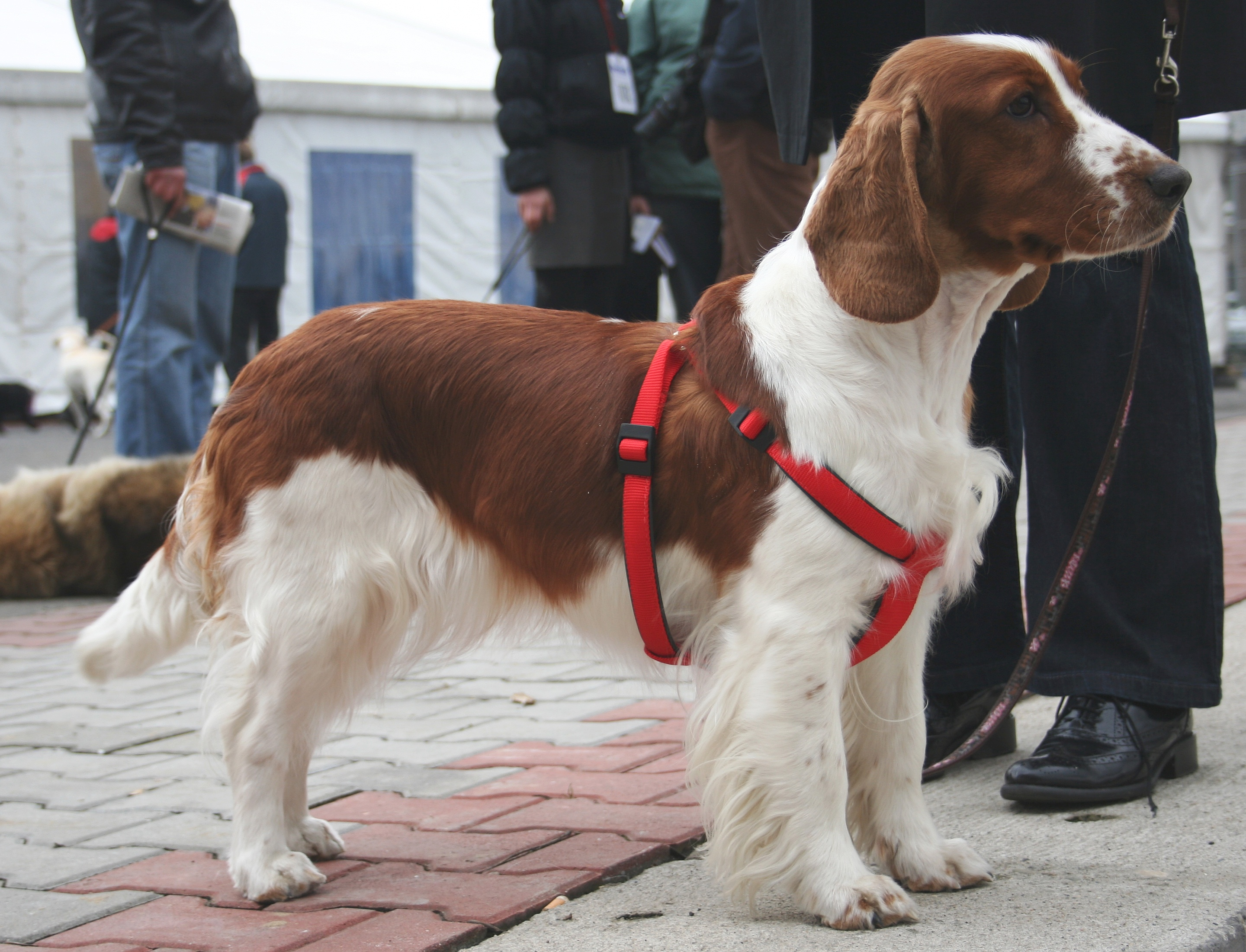 Welsh Springer Spaniel during the international dogs show in Katowice, Poland.